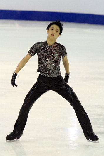 2010 World Junior Figure Skating Championships - Yuzuru Hanyu